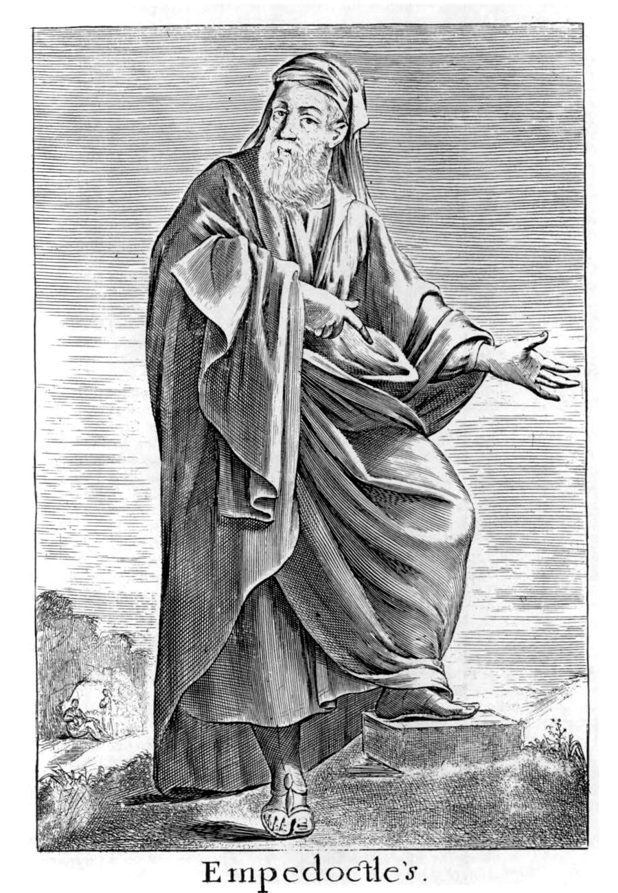 Empedocles, ancient Greek Presocratic philosopher. From Thomas Stanley, (1655), The history of philosophy: containing the lives, opinions, actions and Discourses of the Philosophers of every Sect, illustrated with effigies of divers of them.